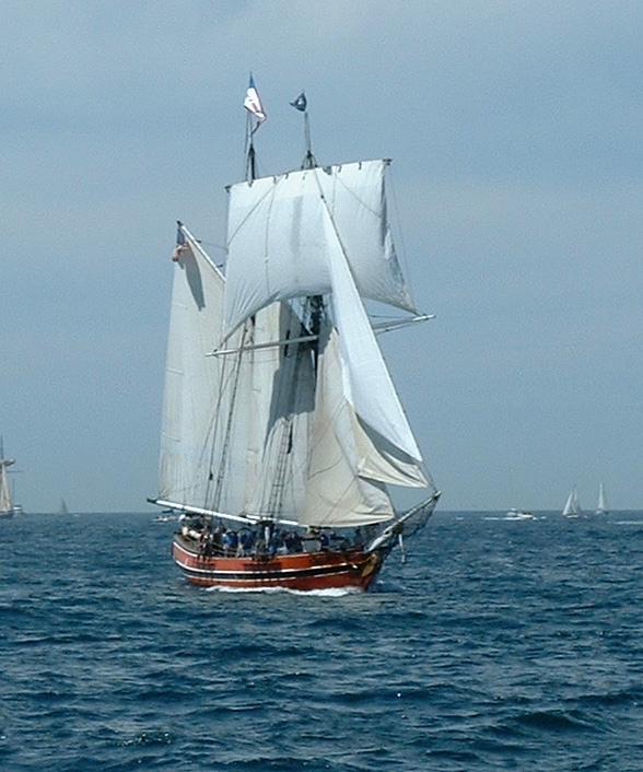 Swift of Ipswich sailing in Los Angeles in 2002 under full sail